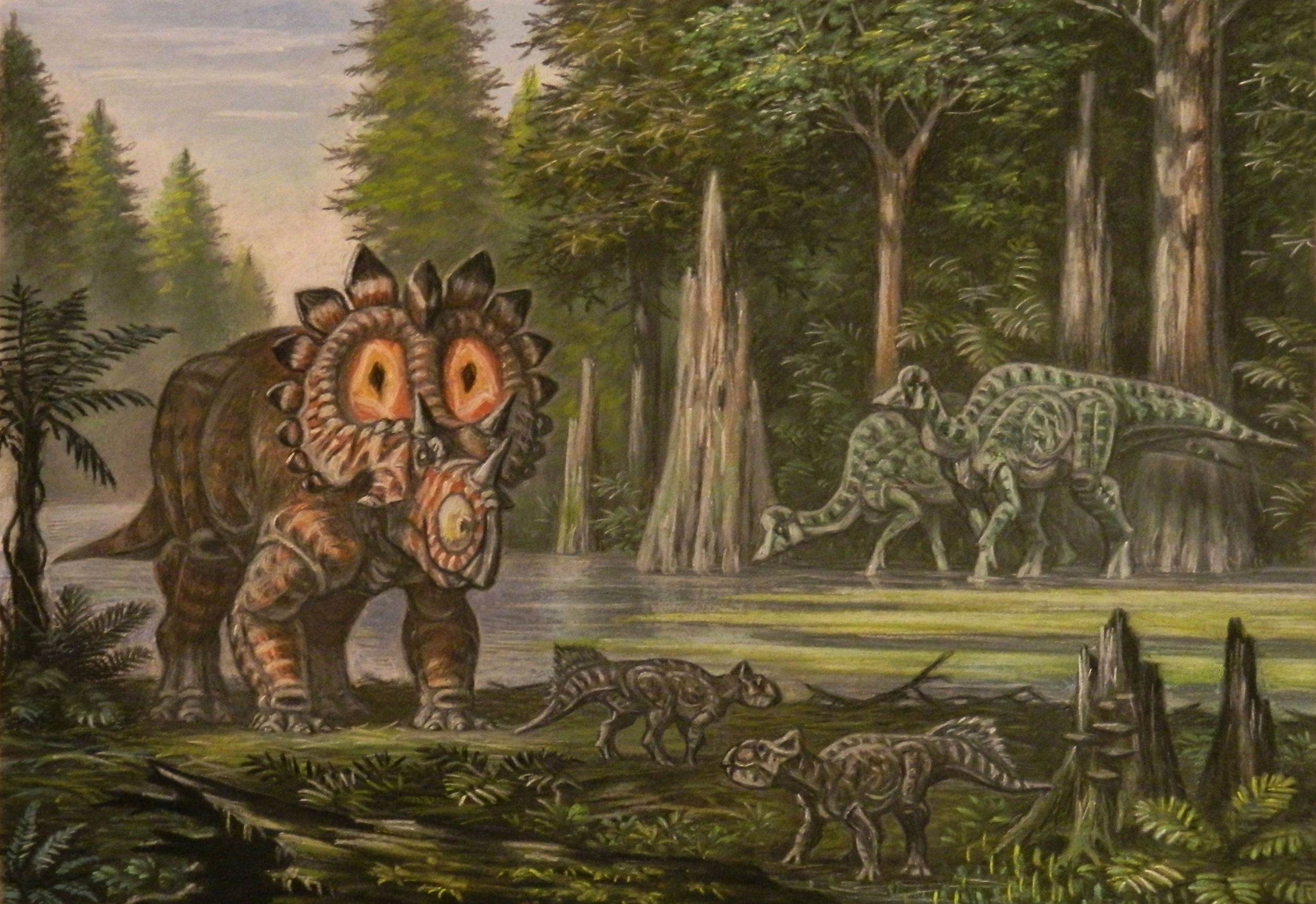 Regaliceratops peterhewsi in its environment with Hypacrosaurus and Leptoceratops